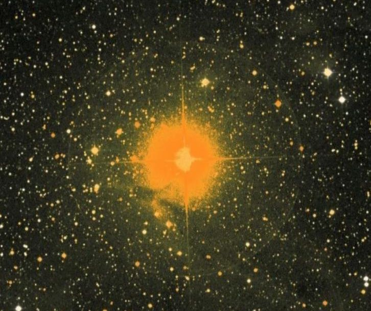 The Garnet Star (Erakis/Herschel's Garnet Star/μ Cephei) is a star in Cepheus constellation. It's a red supergiant star of spectral type M2Ia. The star is very old, it has begun to fuse helium into carbon, whereas a healthy main sequence star fuses hydrogen into helium. At the ending of its life, it's to go supernova, while probably can leave a dense and big black hole.